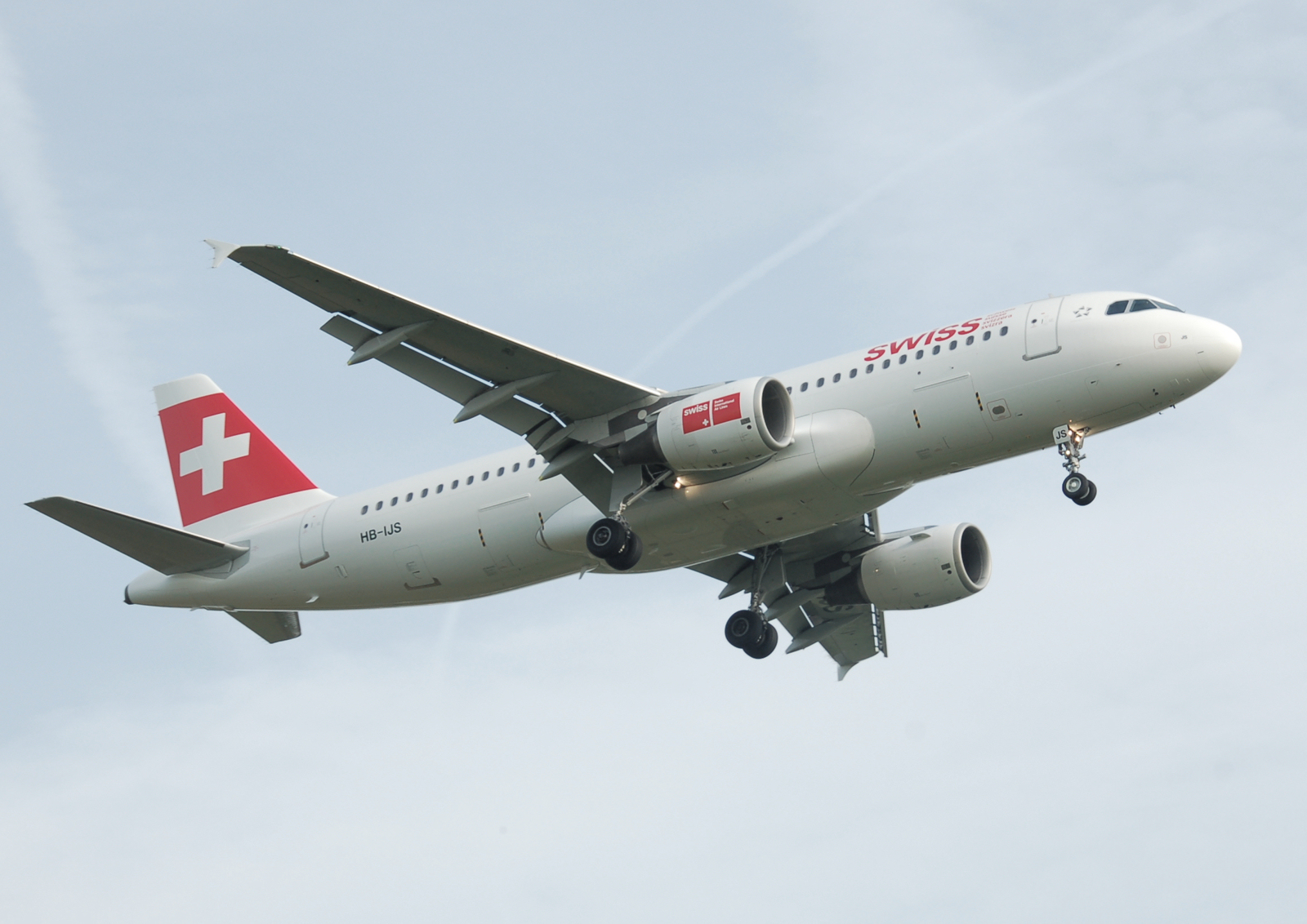 Swiss Airbus A320-200 (HB-IJS) lands at London Heathrow Airport, England.